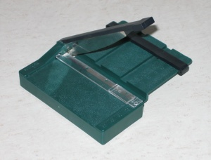 Stamp mount cutter.